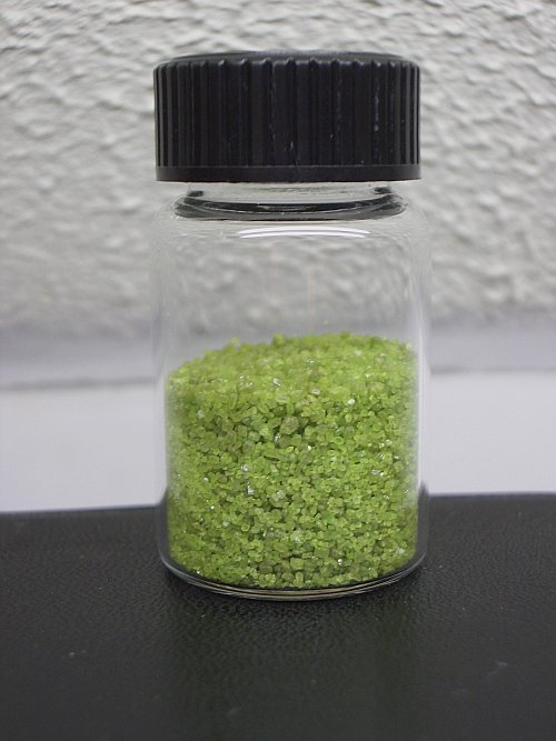 Iron(III) ammonium oxalate. This chemical varies in composition.